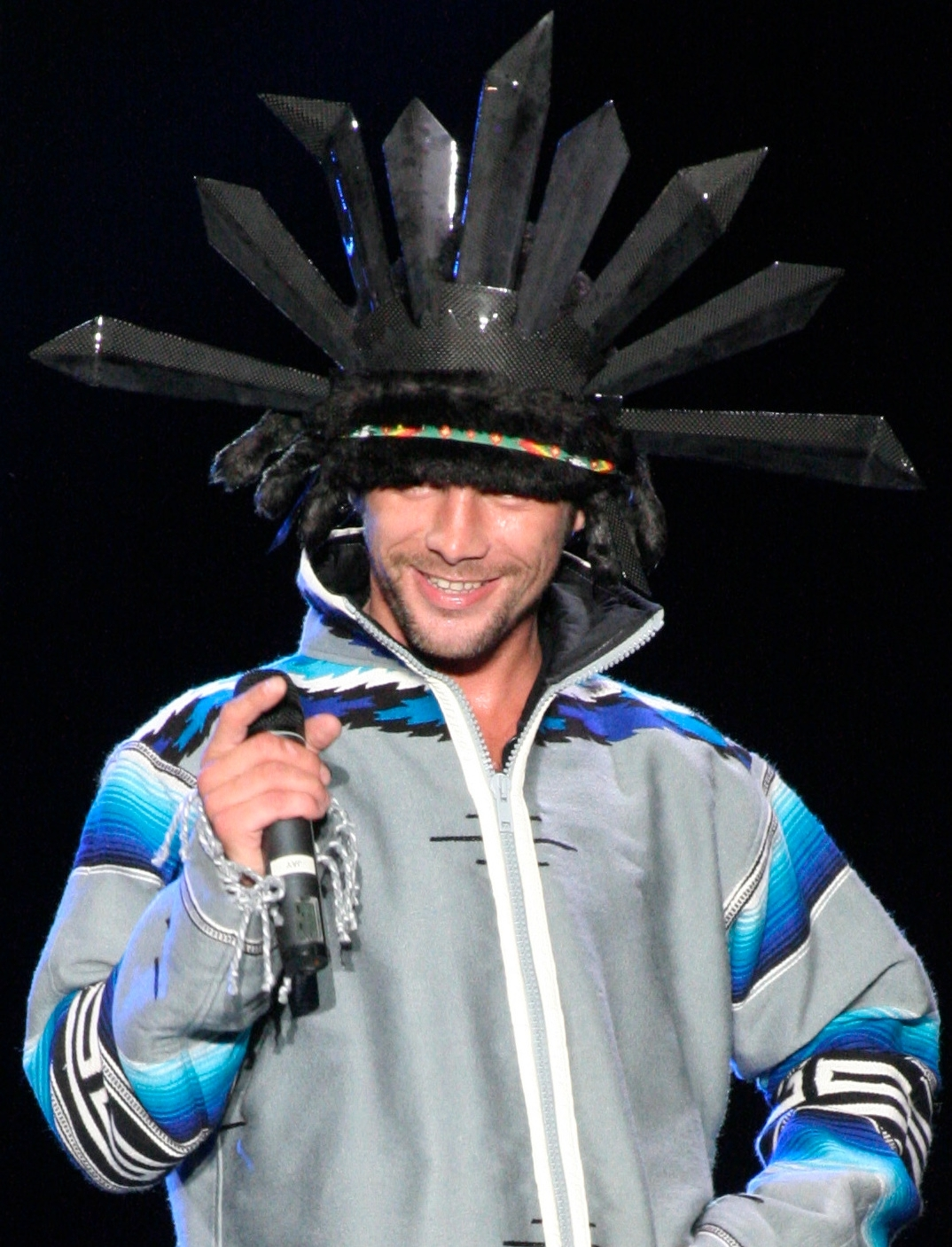 Jason Kay wearing his feather headdressJamiroquai - Jay Kay